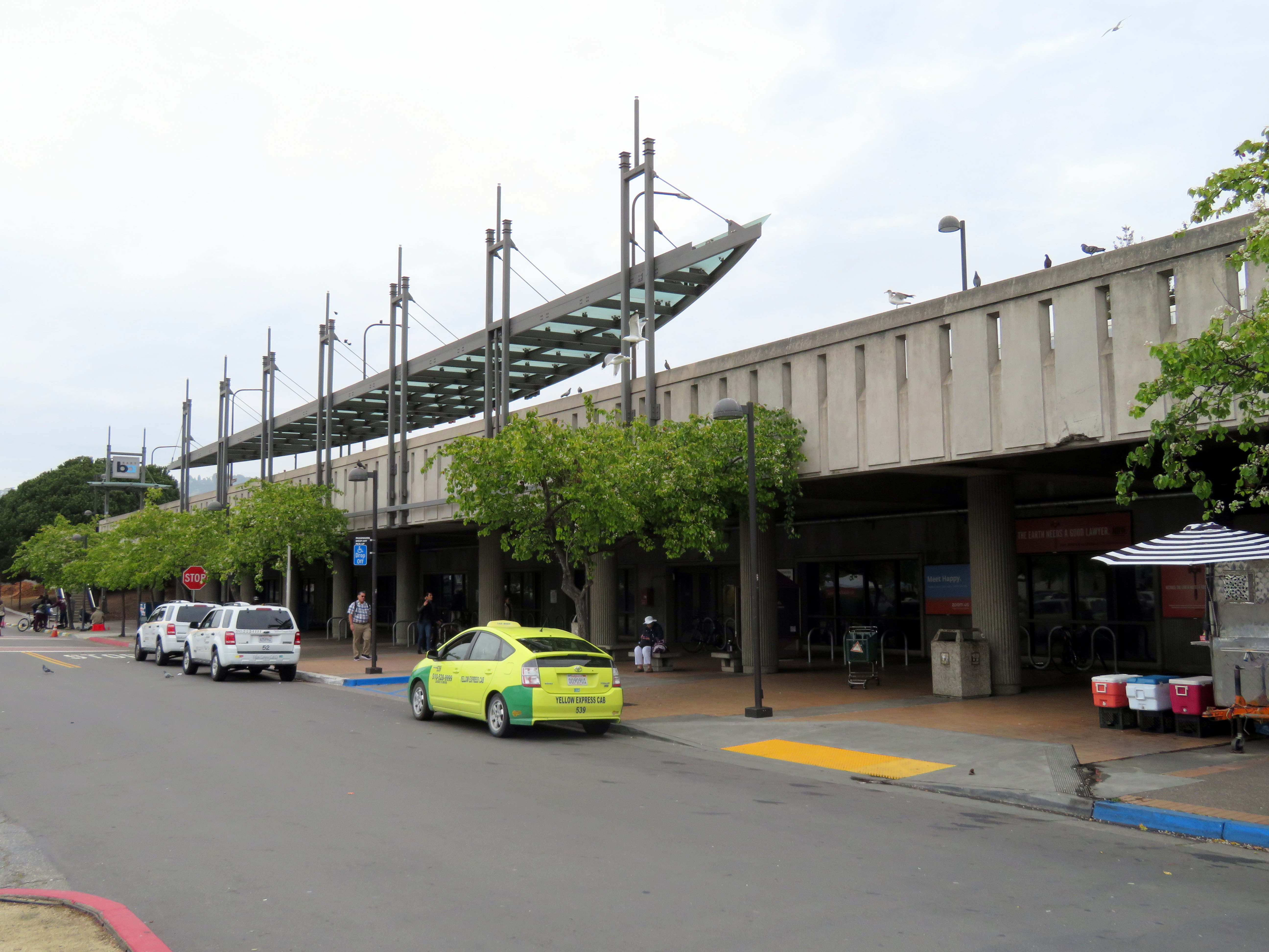 Main entrance to Ashby station in March 2018